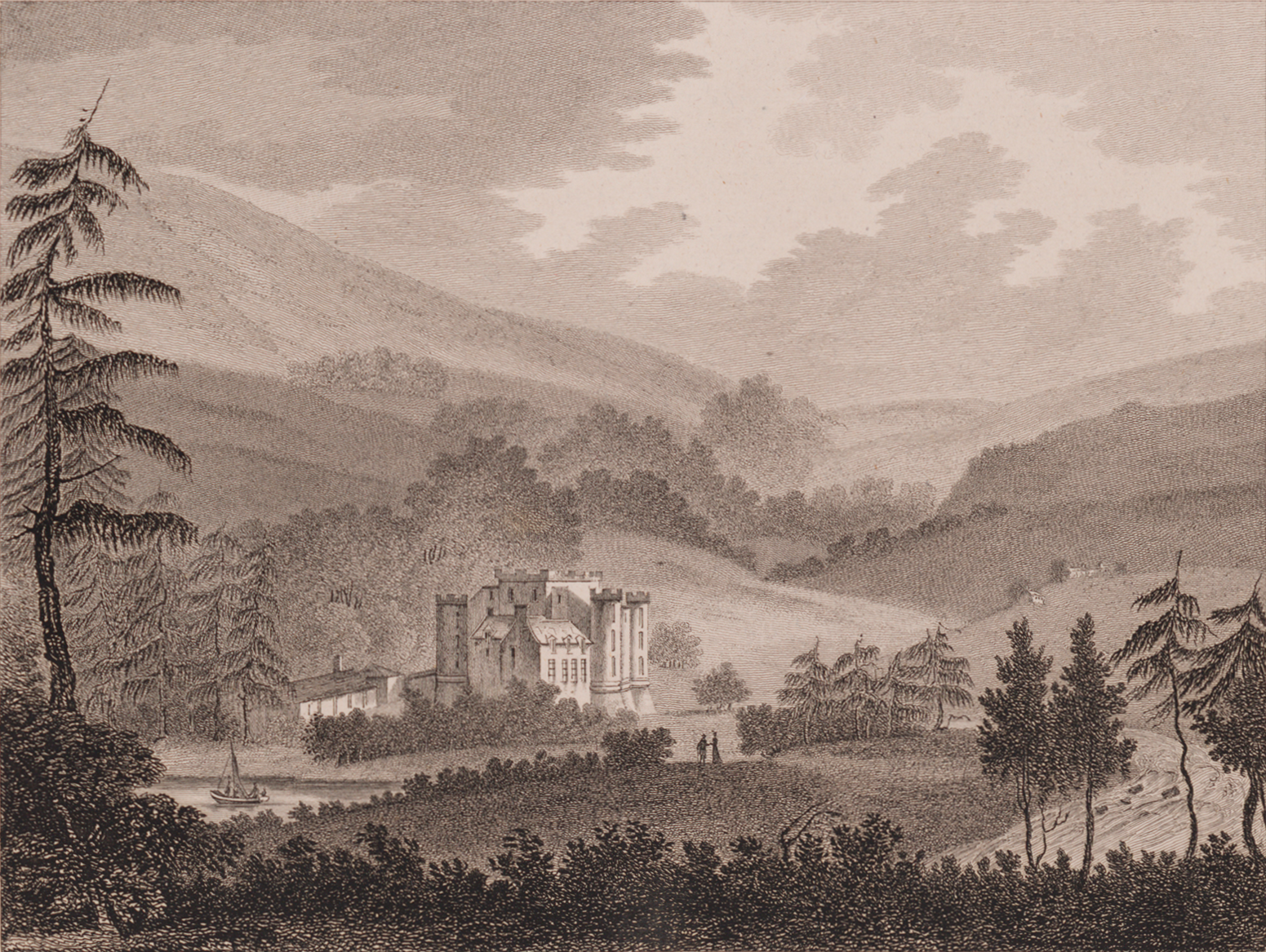 Plate XV/b - John Claude Nattes made drawings of suitable scenes on the spot; etchings are by James Fittler. - John Claude Nattes made drawings of suitable scenes on the spot; etchings are by James Fittler. Height: 28 cm (11 in). Width: 39 cm (15.4 in).